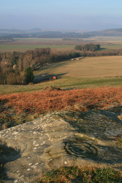 Cup and ring marked stone at Lordenshaws